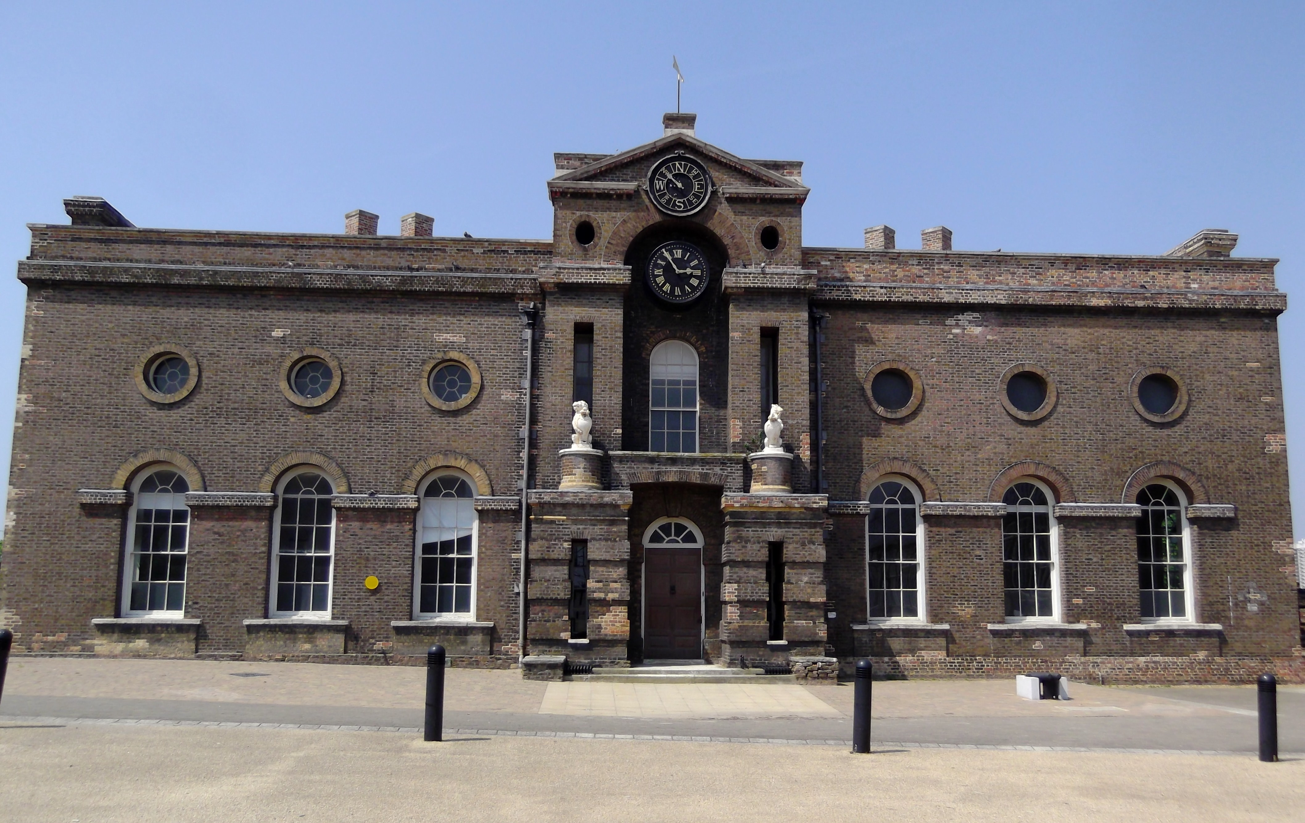 Royal Military Academy Woolwich London 044